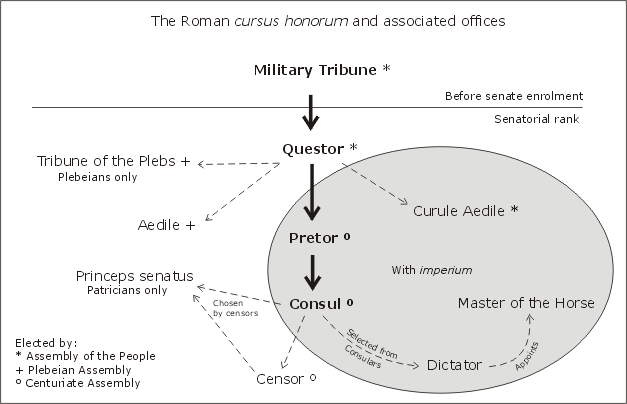 The Roman cursus honorum, drawn by Muriel Gottrop.